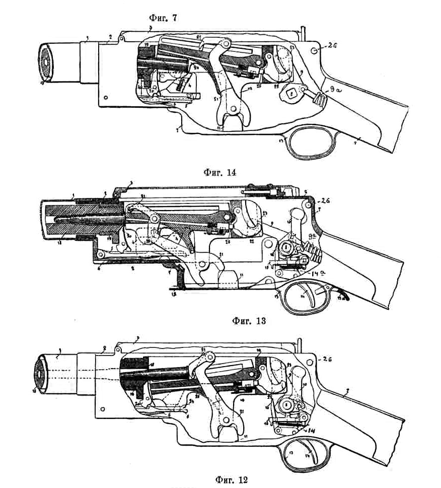 Machinegun Maxim drawing 1905